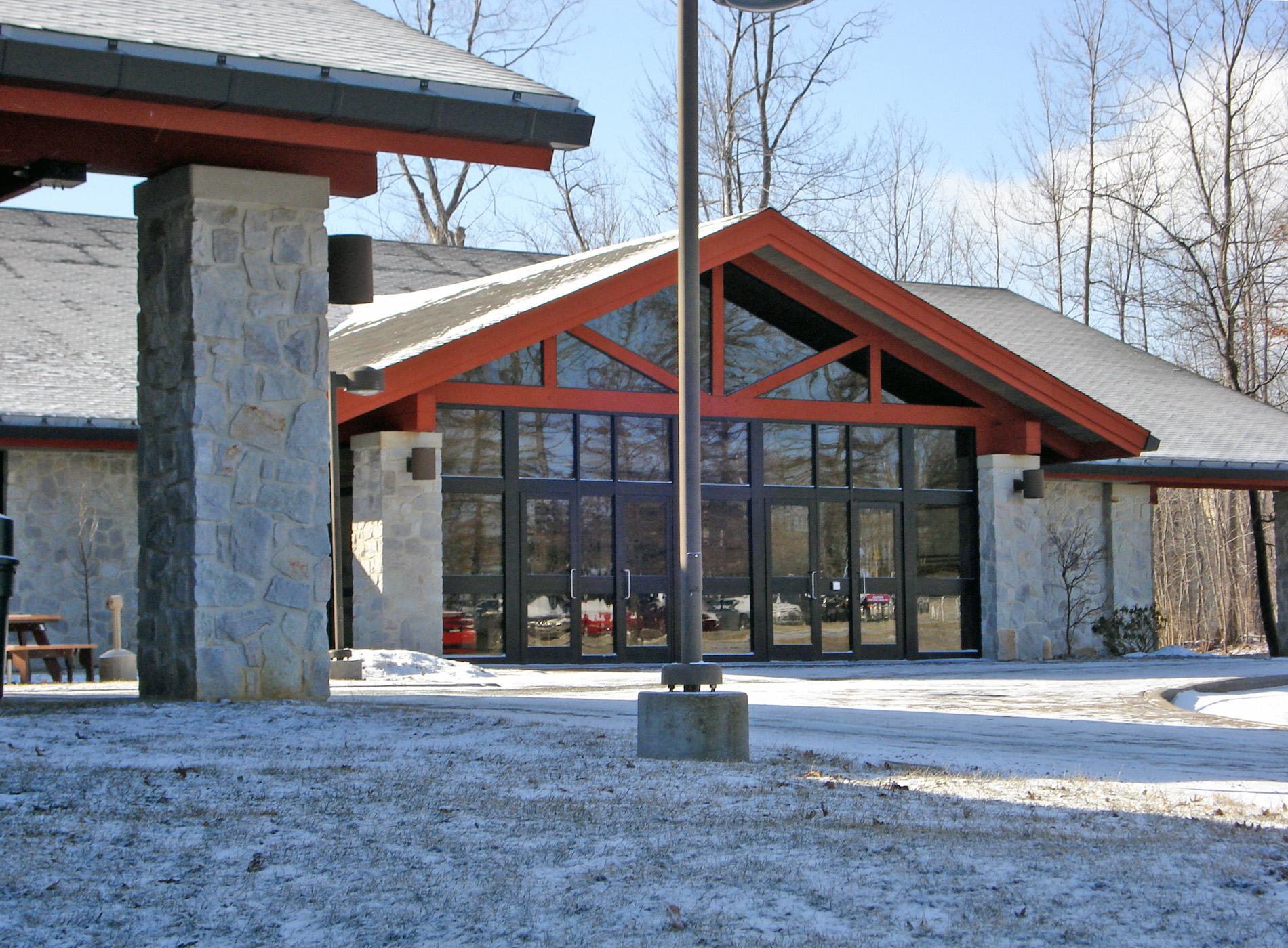 Living/Learning Center (LLC) at the University of Pittsburgh at Johnstown